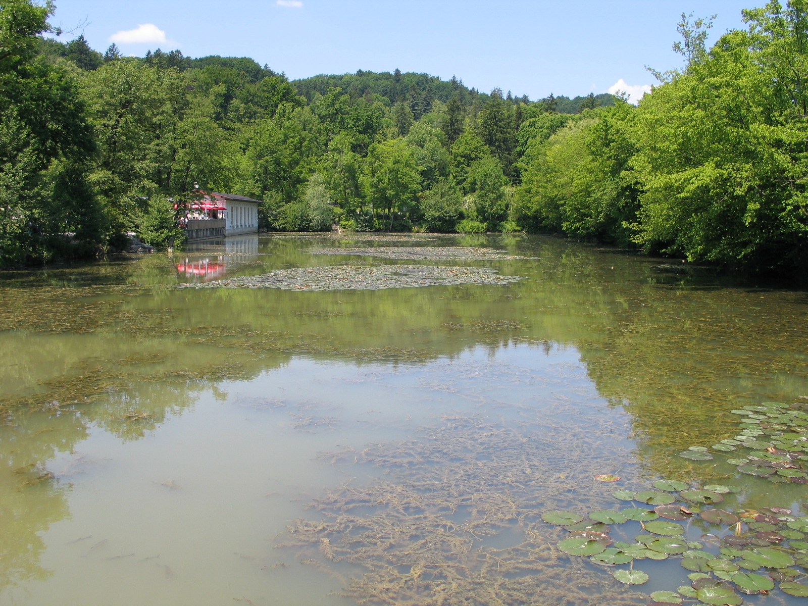 Pond Tivoli, Ljubljana